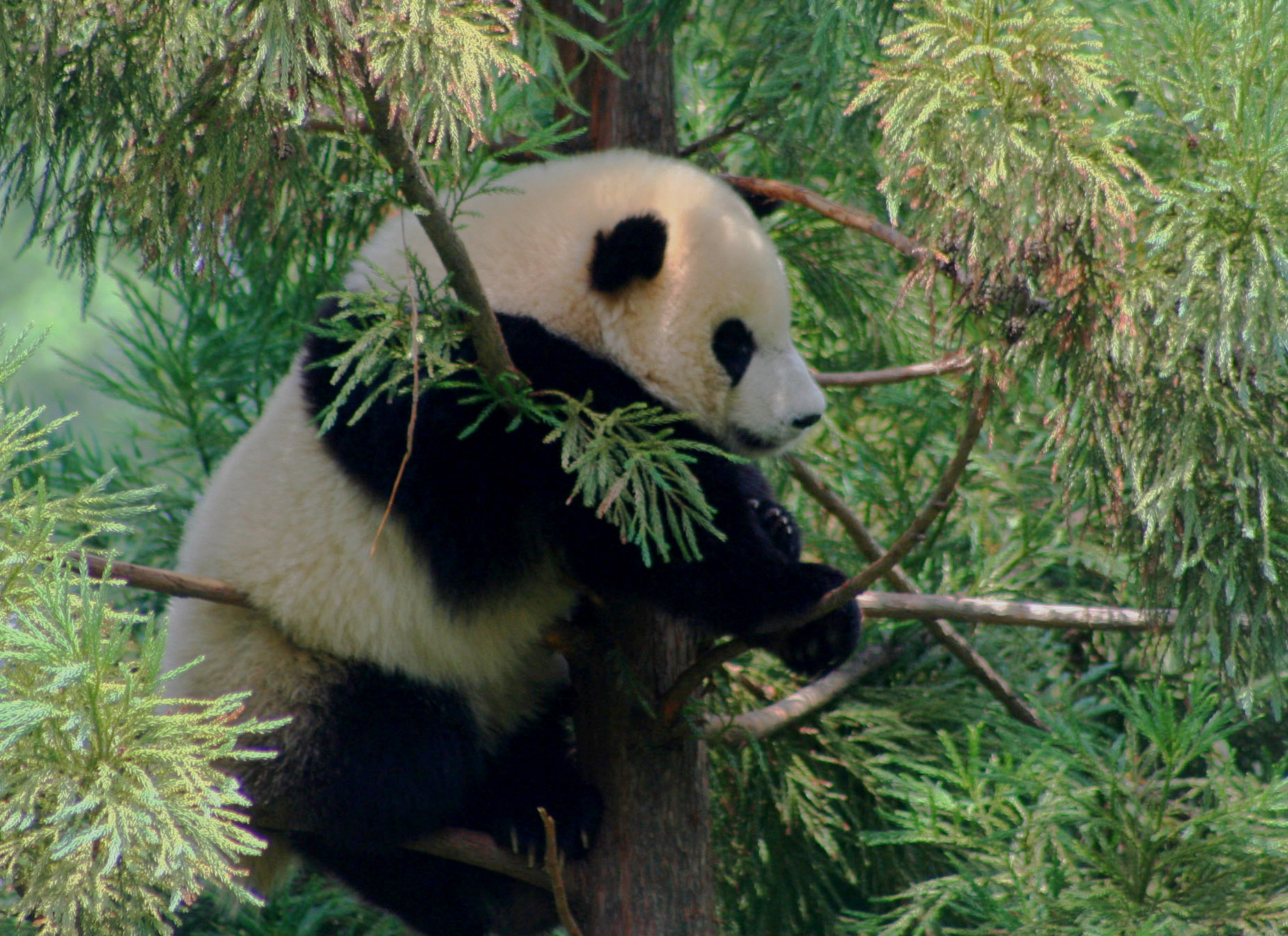 Tai Shan, National Zoo's Panda cub is 1 year old (July 2006).